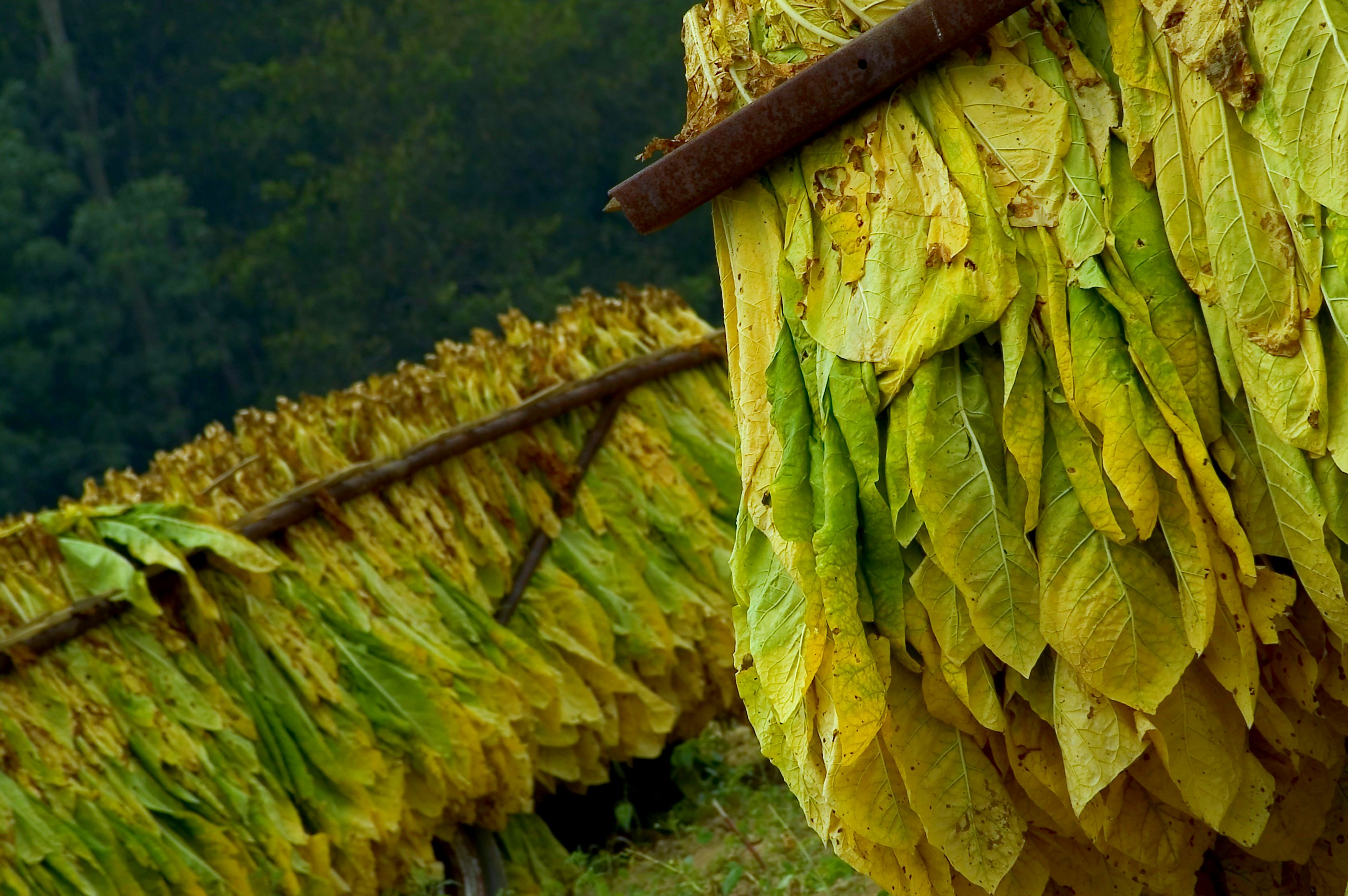 Ohio Tobacco is called "Burley White", and is still grown in 20 Ohio Counties. This series was photographed along the Ohio River during Labor Day Weekend----traditionally the start of harvest for this crop. If anyone is interested in learning more about the history of tobacco, venture your way to the Tobacco Museum in Ripley, OH (Along Route 52) to meet Eddy and the other tobacco farmers to get the historical perspective on this agricultural crop.